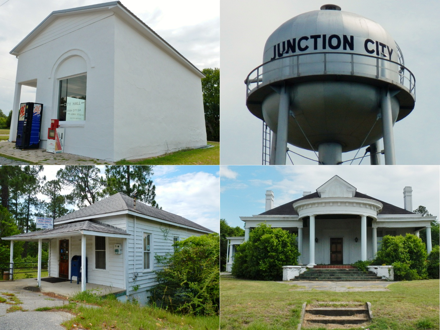 This is a photo collage of Junction City, GA. Clockwise from top right: Water tower, historic building, post office, and city hall.